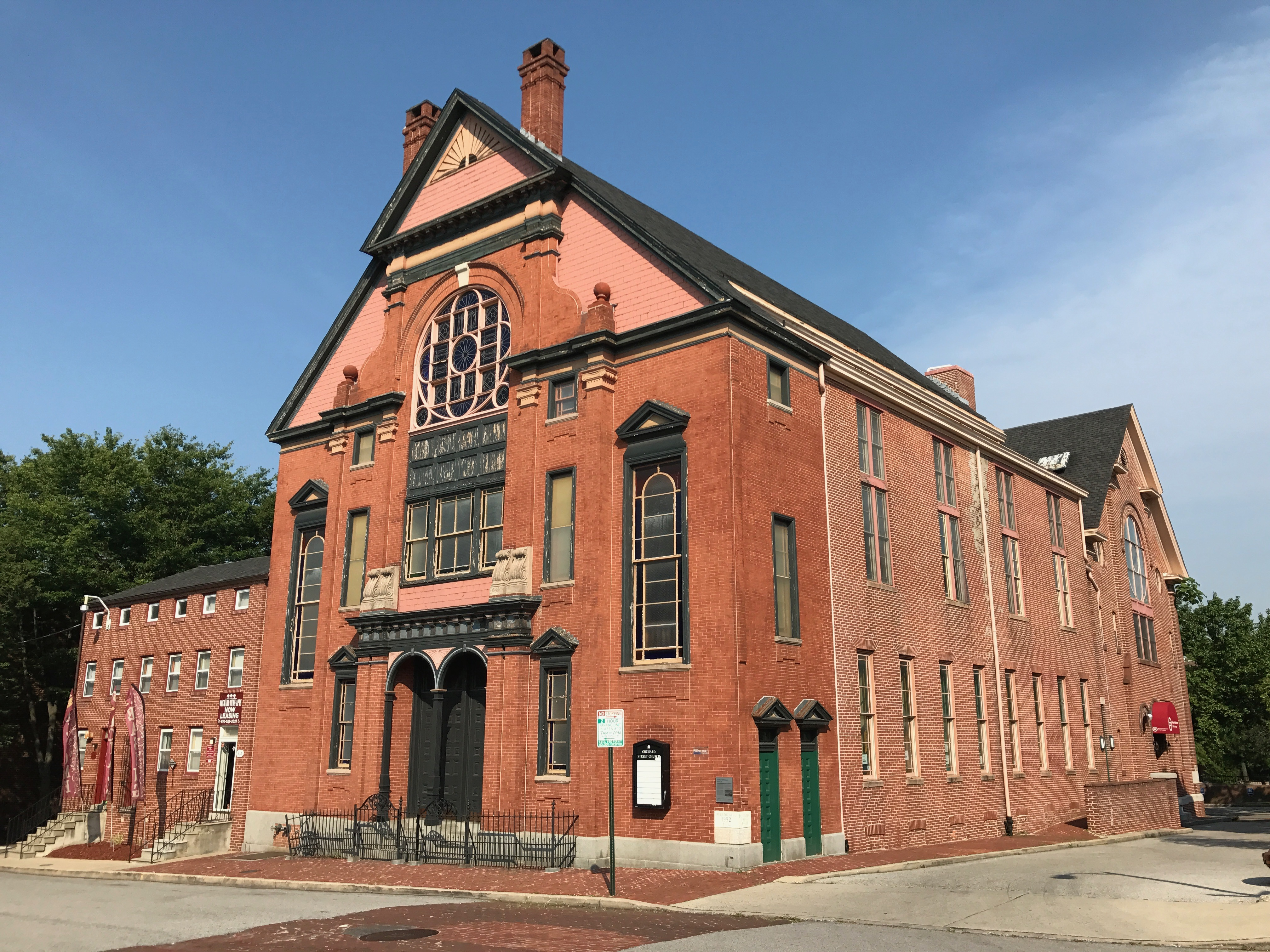 Photograph by Eli Pousson, 2017 July 20.